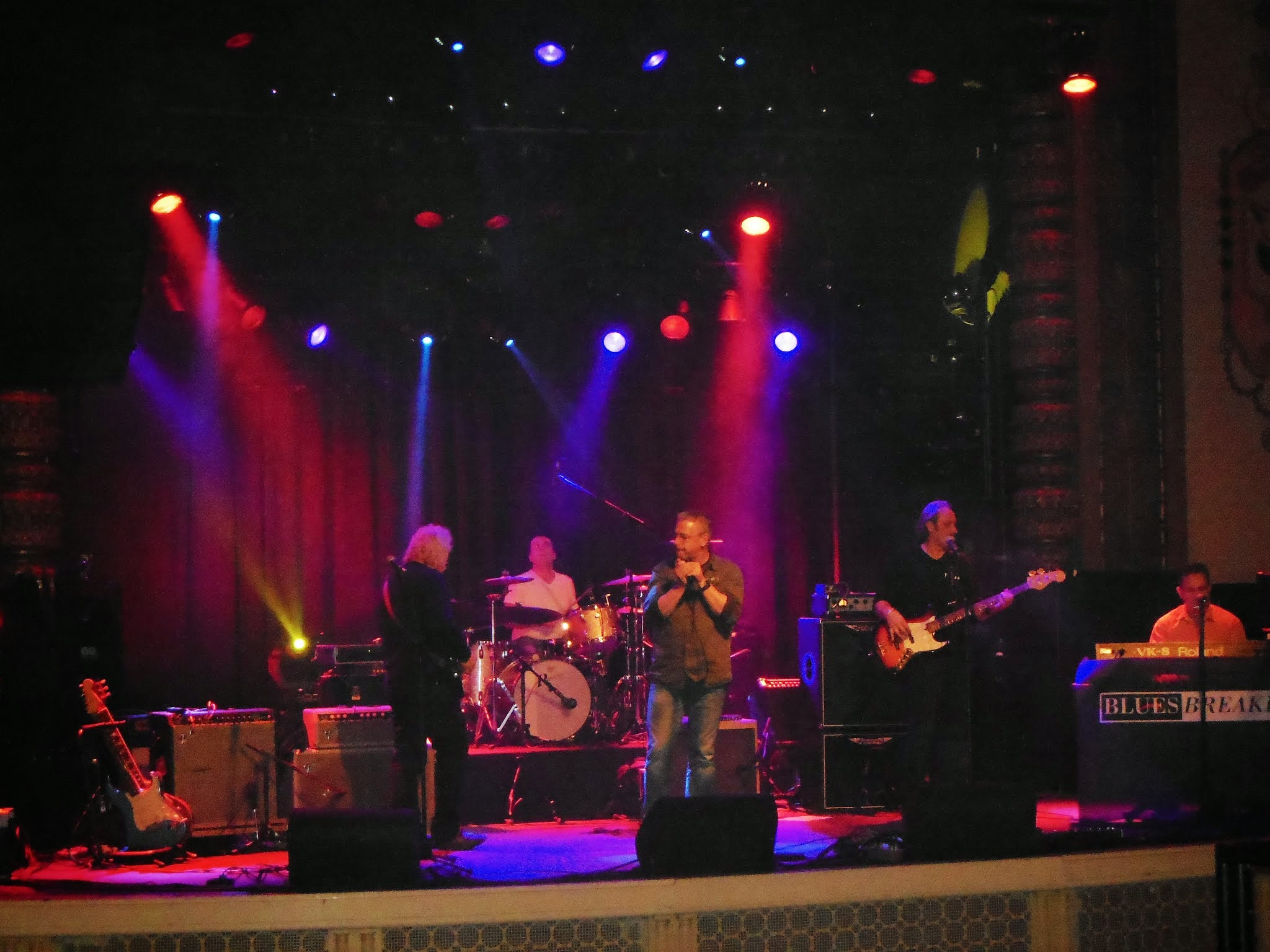 Bluesbreakers during soundcheck at Luxor Live in Arnhem, the Netherlands